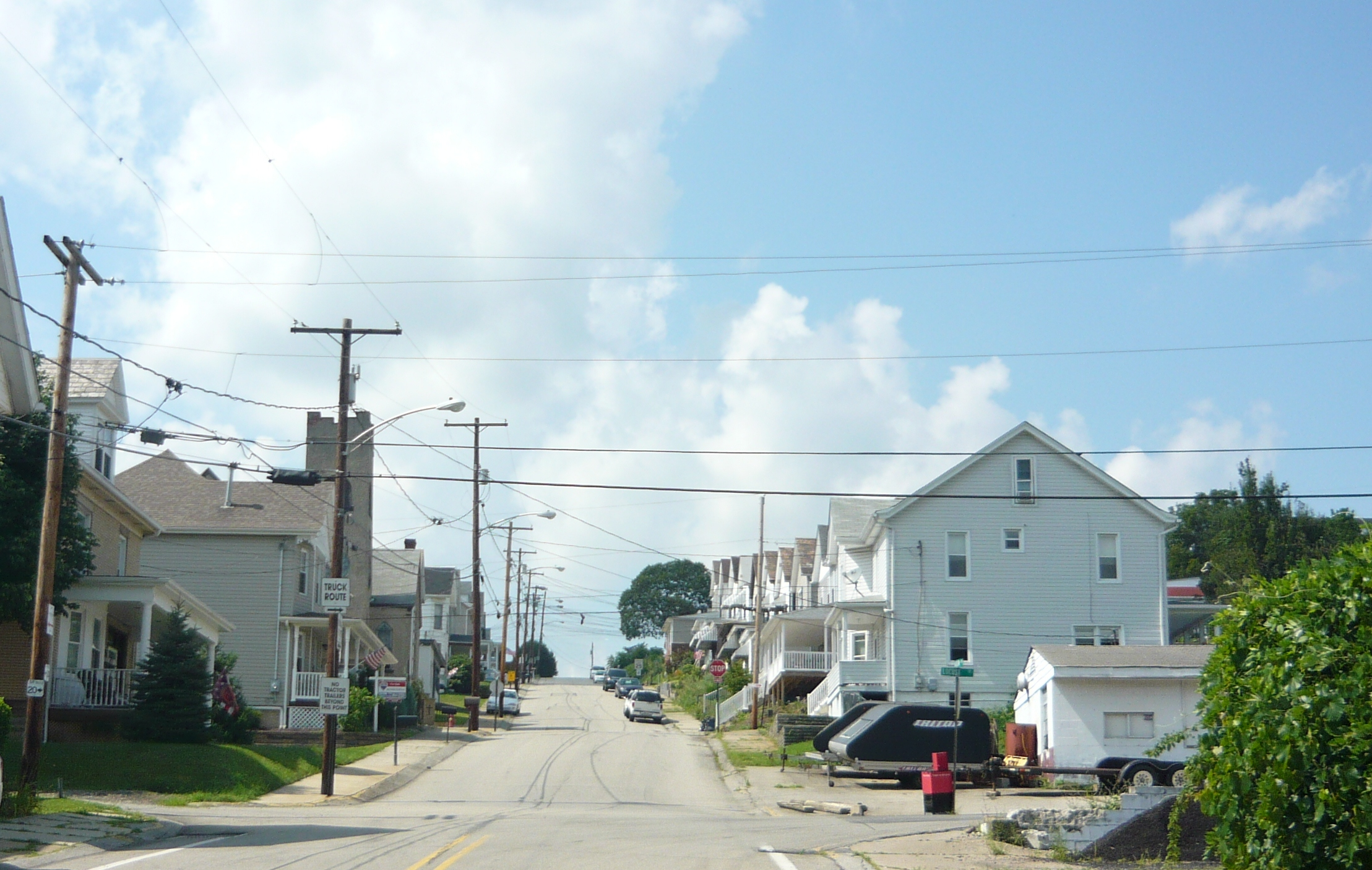 Harrison Avenue (looking northward from Locust Street), Borough of Penn, Westmoreland County, Pennsylvania.